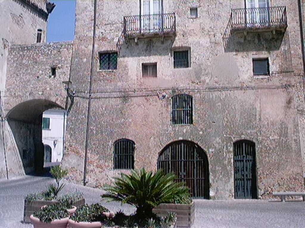 Baronial Palace - it is well-know as The Castel or The Count Palace